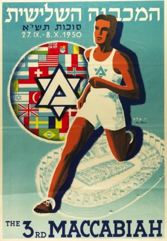 The Third Maccabiah Poster